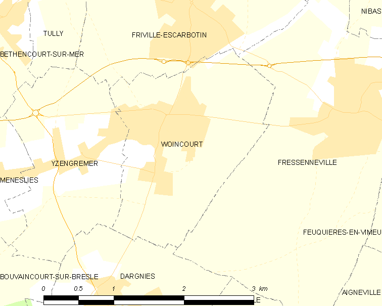 Map of French municipality Woincourt